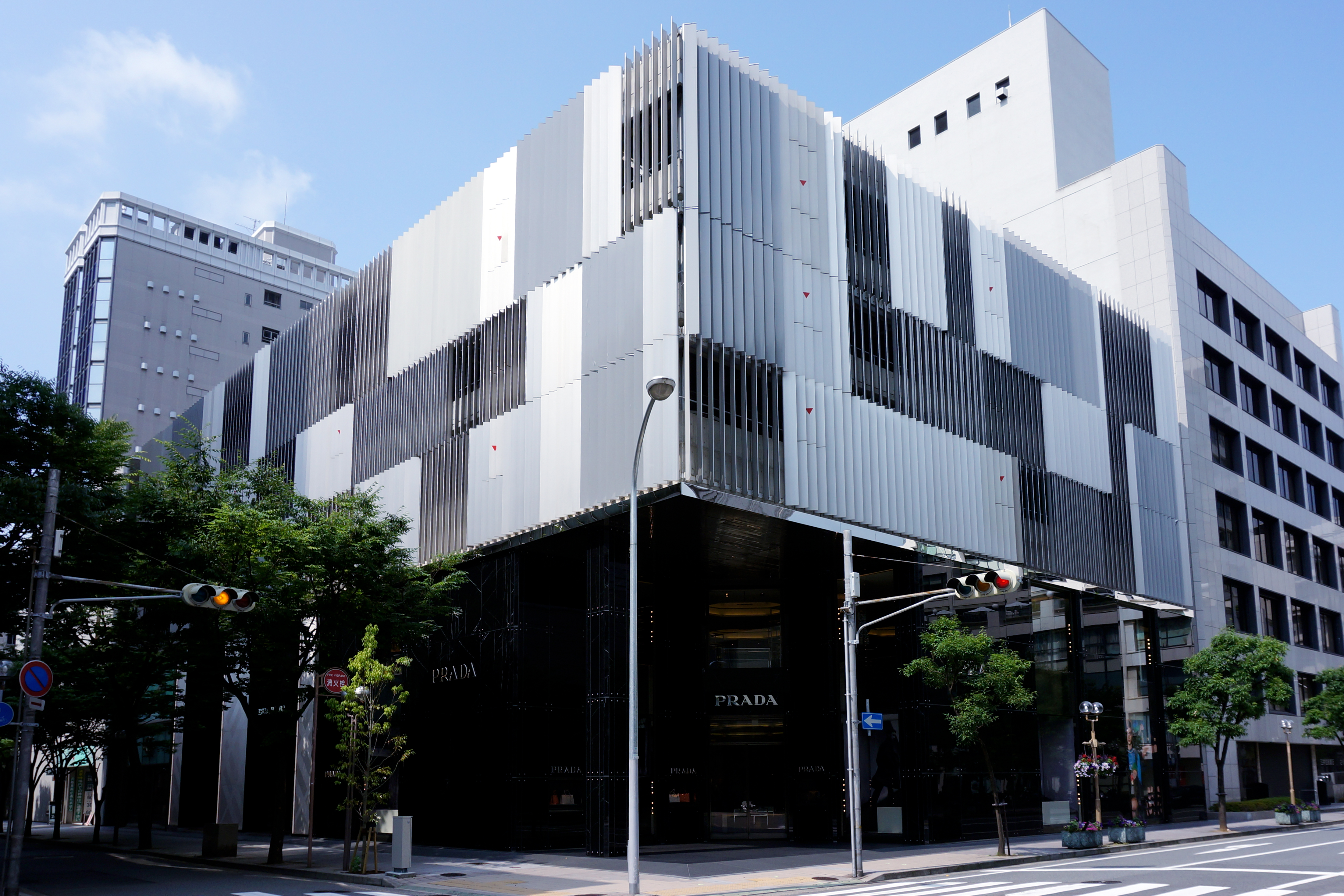 Prada Kobe store at Kobe, Hyogo prefecture, Japan.